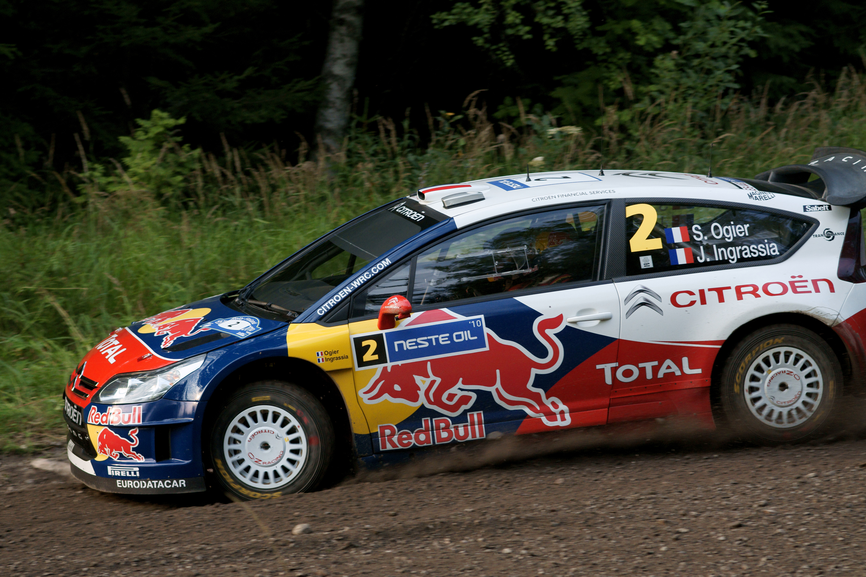 Sebastien Ogier driving at Laajavuori special stage, Rally Finland 2010.